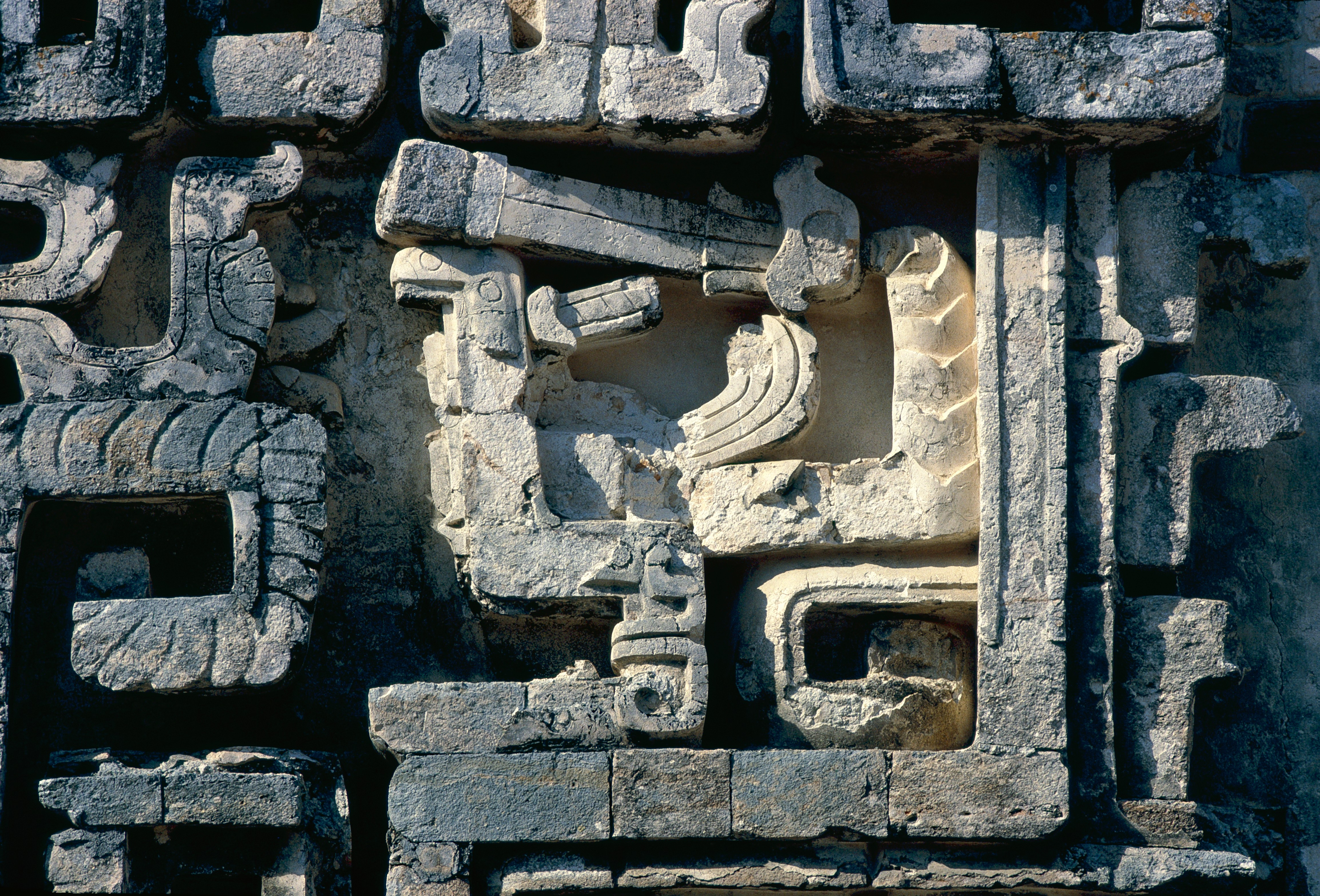 Hochob, Campeche, Mexico: building II, detail of stucco decoration